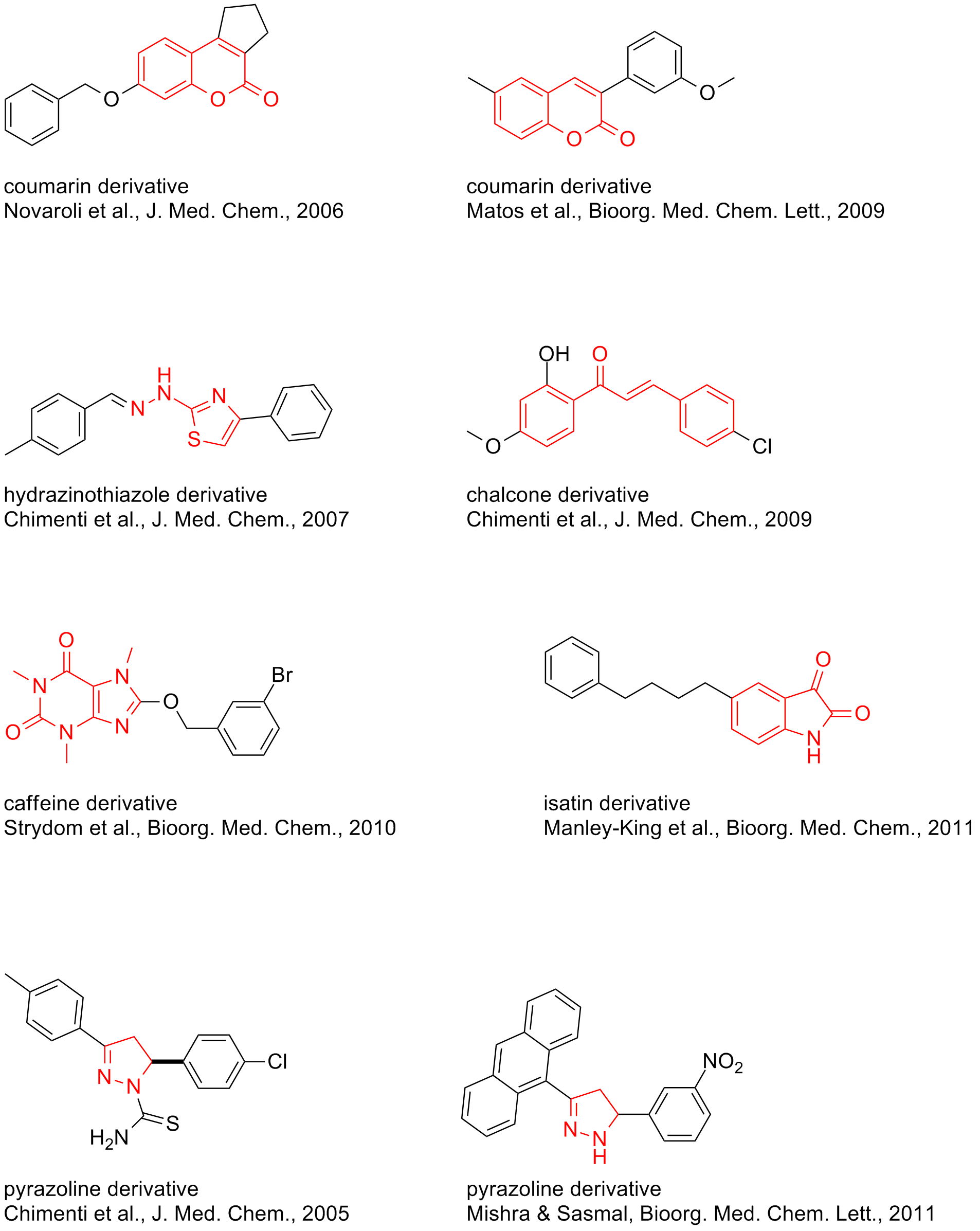 The compounds are MAO-B inhibitors. The file was made with ChemBioDraw Ultra 12. References follow: Laura Novaroli et al., 2006, compound C-19, Maria Matos et al., 2009, compound 4, Franco Chimenti et al., 2007, compound 18, Franco Chimenti et al., 2009, compound 5I, Belinda Strydom et al., 2010, compound 5C, Clarina Manley-King et al., 2011, compound 9I, Franco Chimenti et al., 2005, compound 1, Nibha Mishra & D. Sasmal, 2011, compound 9